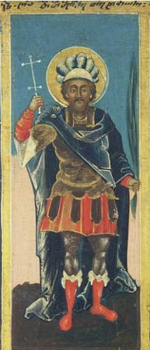 A fragment of the 18th-century Georgian icon from Akhali Shuamta, depicting St. Theodore of Tyro.